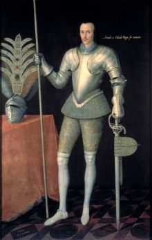 Portrait of Robert Radcliffe, 5th Earl of Sussex (1569-1629)